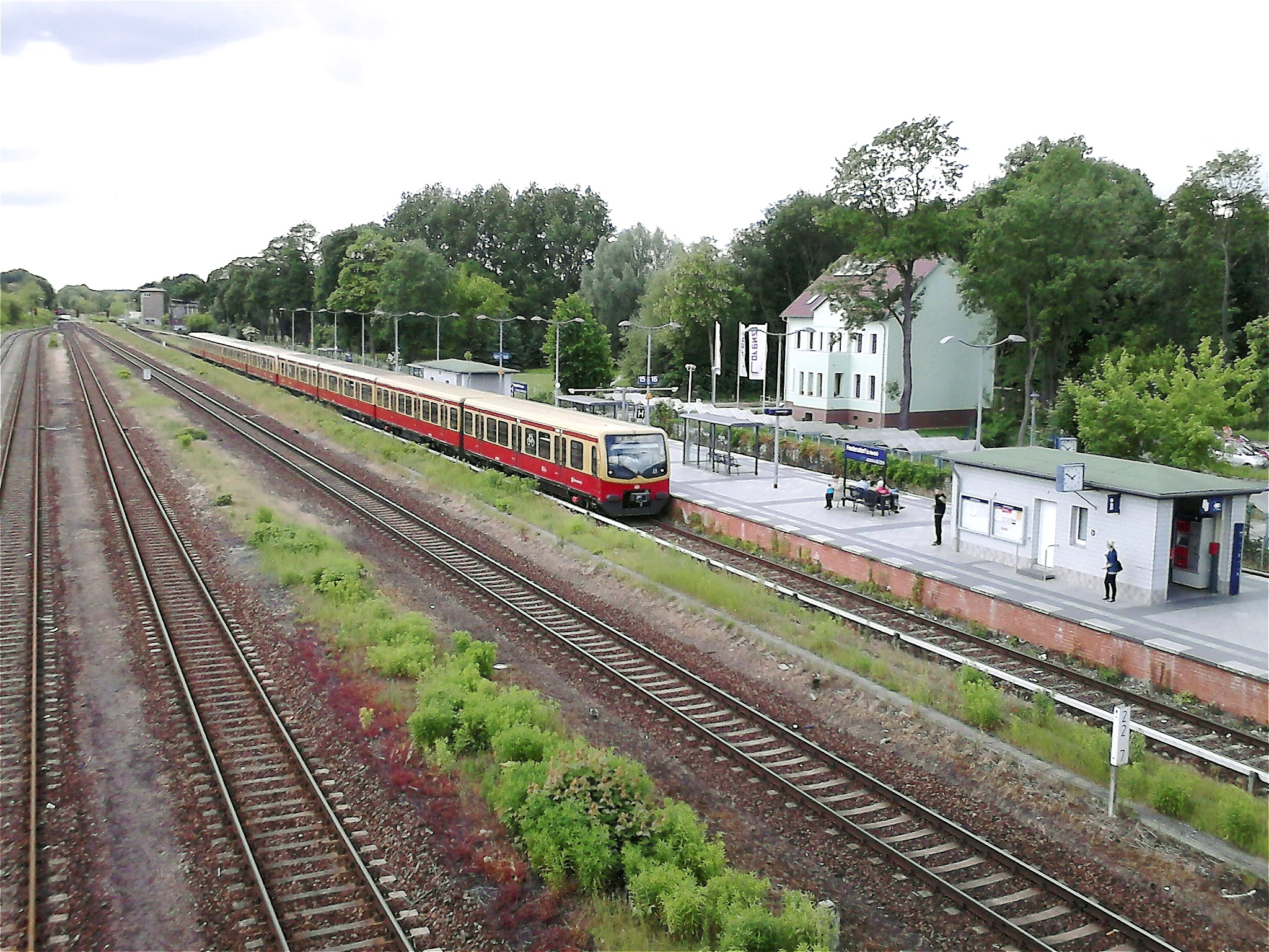 A train of the Berlin S-Bahn (type 481) pulls into the station Fredersdorf (near Berlin). Left of the S-Bahn track is the track of the old Prussian Eastern Railway. (2nd from right, middle of the picture) The left tracks are sidings.